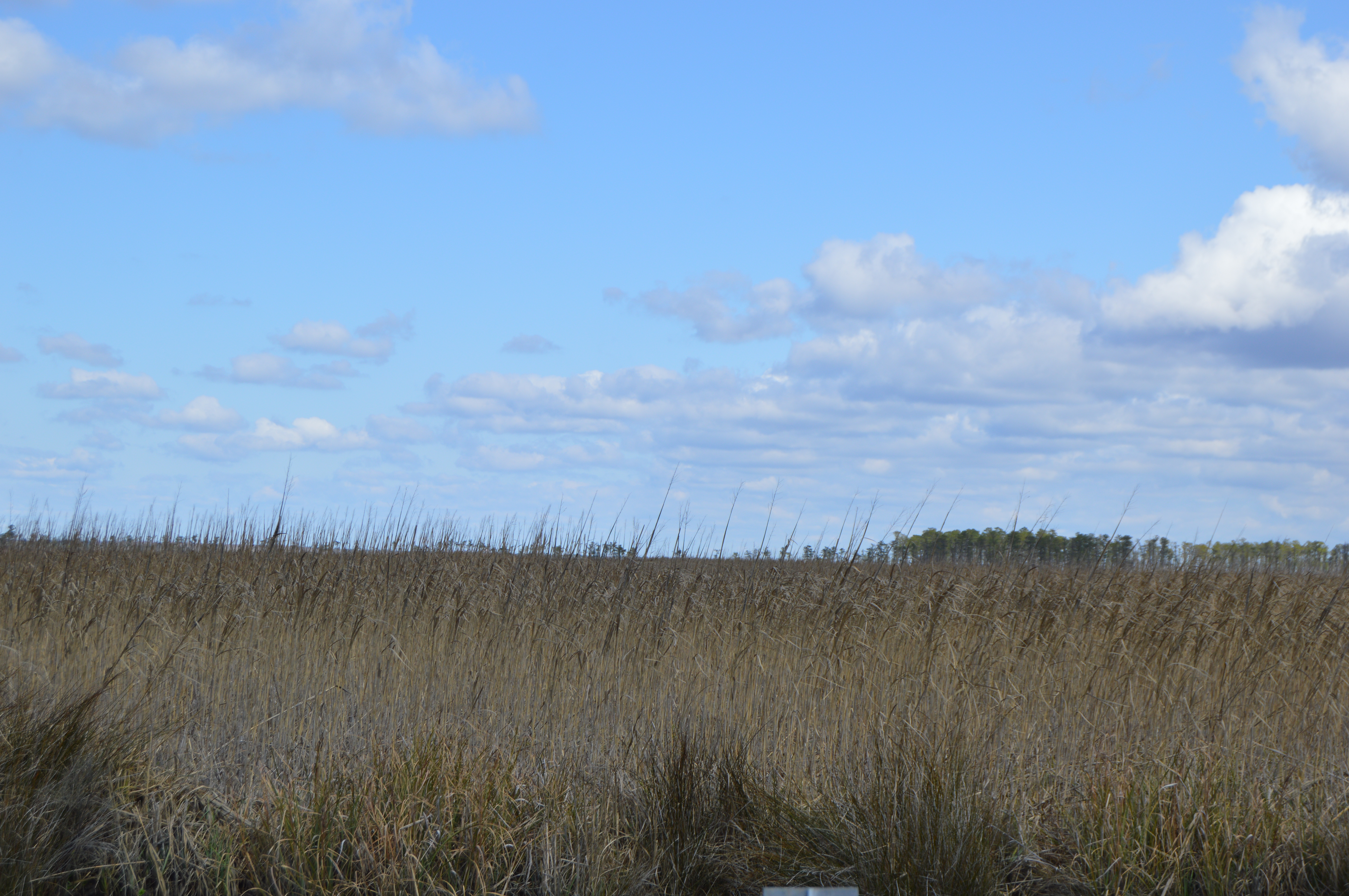 Marshland at the southern edge of Navy Dare, a U.S. Navy bombing range located north of U.S. Route 264 in mainland Dare County, North Carolina, United States.